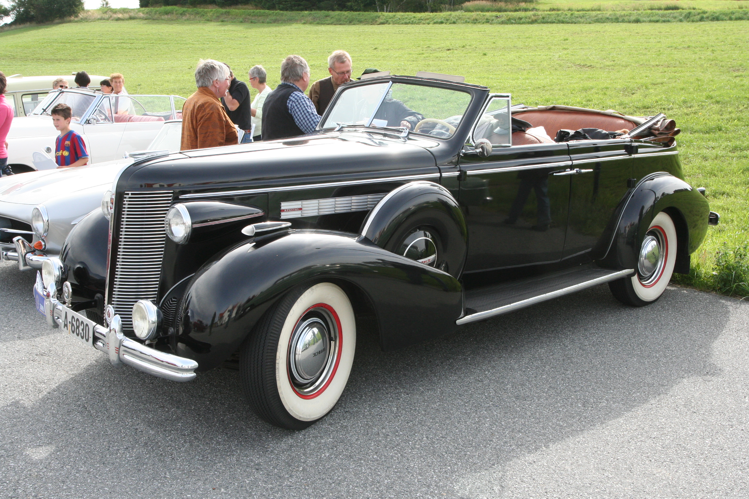 1937 Buick Special Series 40, model 37-40CX 4-door convertible phaeton, chassis number 3143874. 256 of these were built for export, and the car was delivered new to Norway on 11 August 1937. Captured at a Veteran-Car meeting on August 1, 2009 in Utstein, Norway. Richard was the owner at the time.